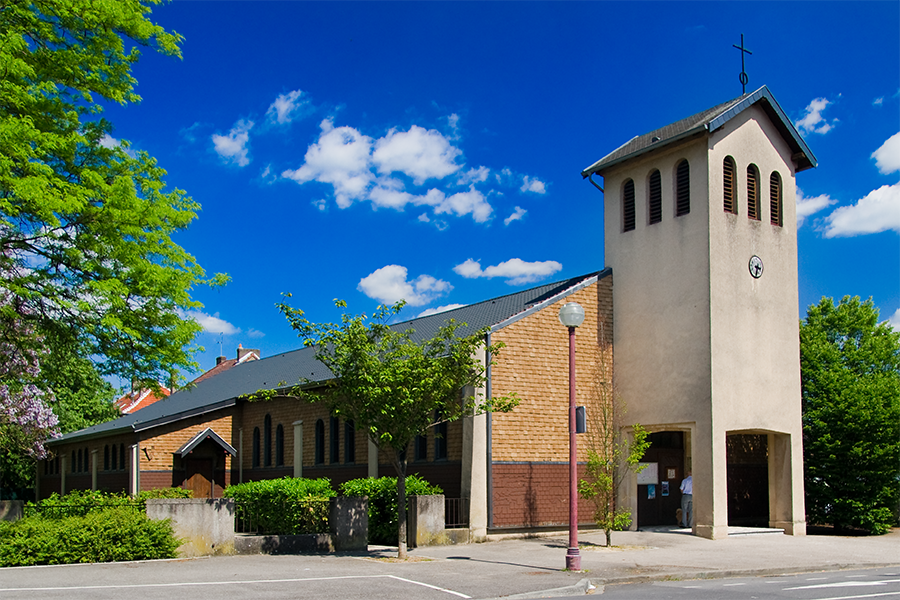 Church Notre Dame de Lourdes located in Metz Devant-lès-Ponts